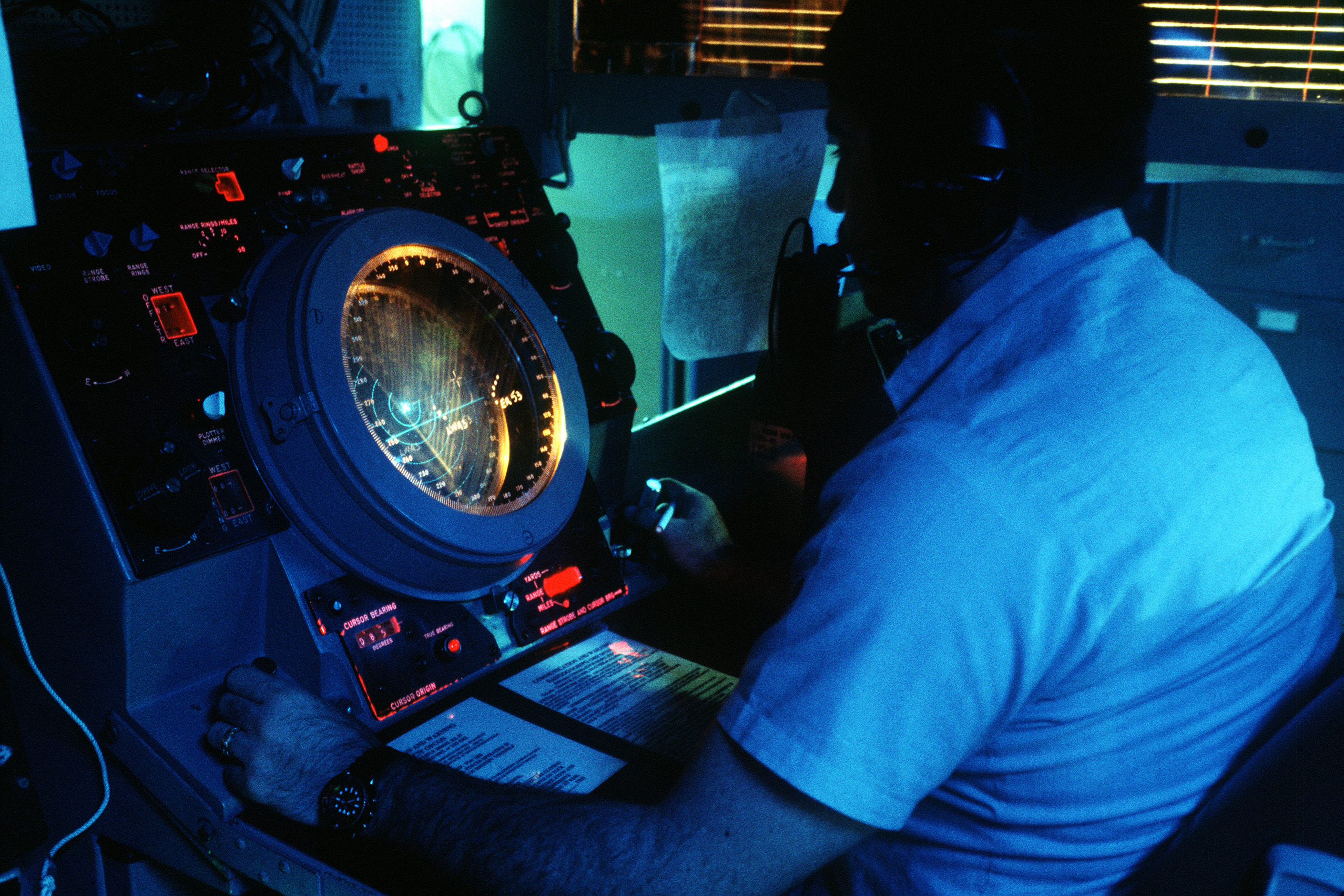 A radar technician operates SPS-67 surface search radar in a flag plot aboard the battleship USS MISSOURI (BB-63) during Exercise RimPac '88.